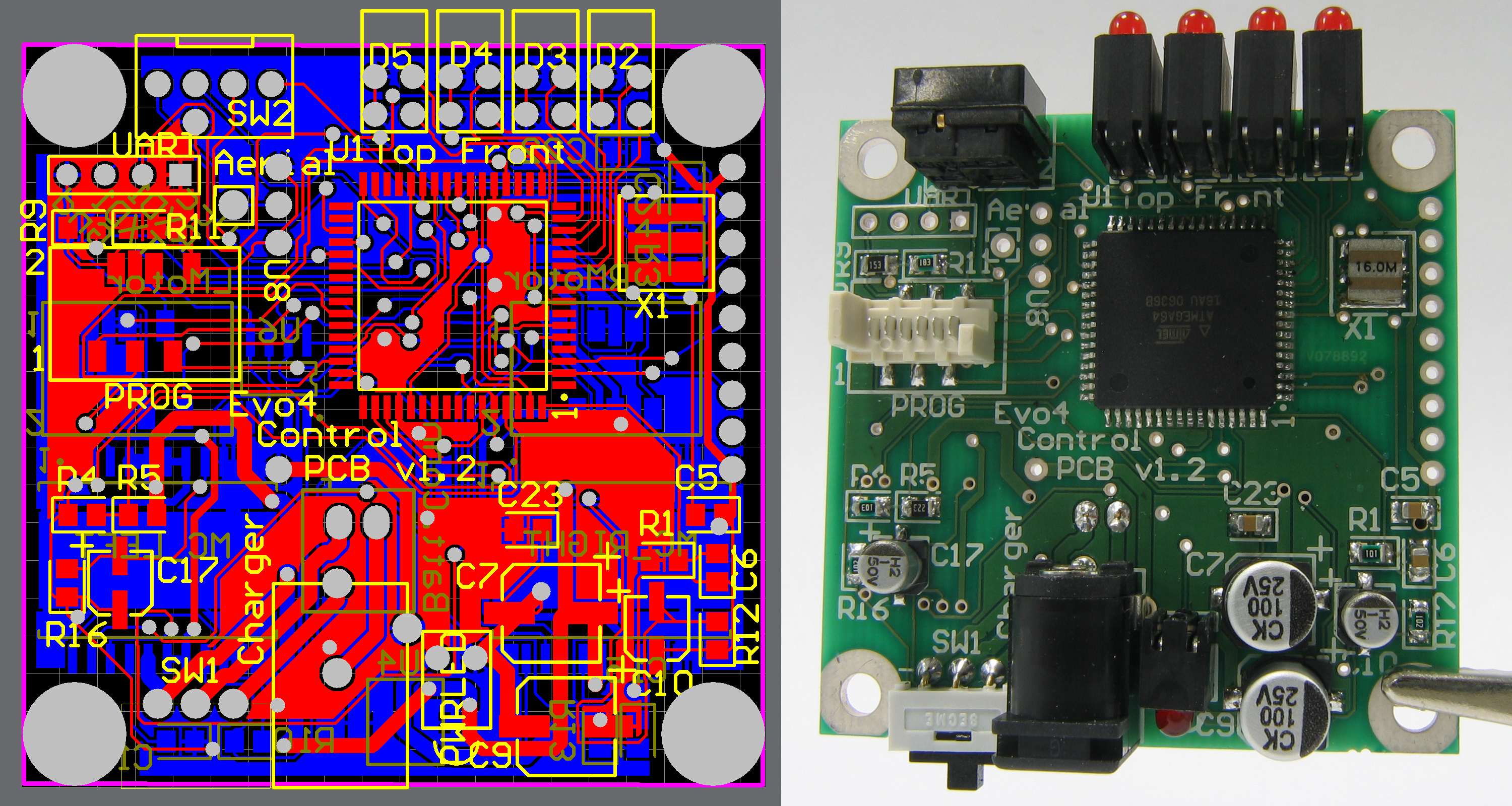 This picture shows (left) a printed circuit board (PCB) layout, created on a computer and (right) the manufactured board, populated with parts. Both through-hole and surface mounts components have been used; the board is double-sided, with through-hole plating, green solder resist, white solder paste (visible on unsoldered holes, such as the four corner mounting holes and the nine holes down the right hand side of the board) and white silkscreen printing.